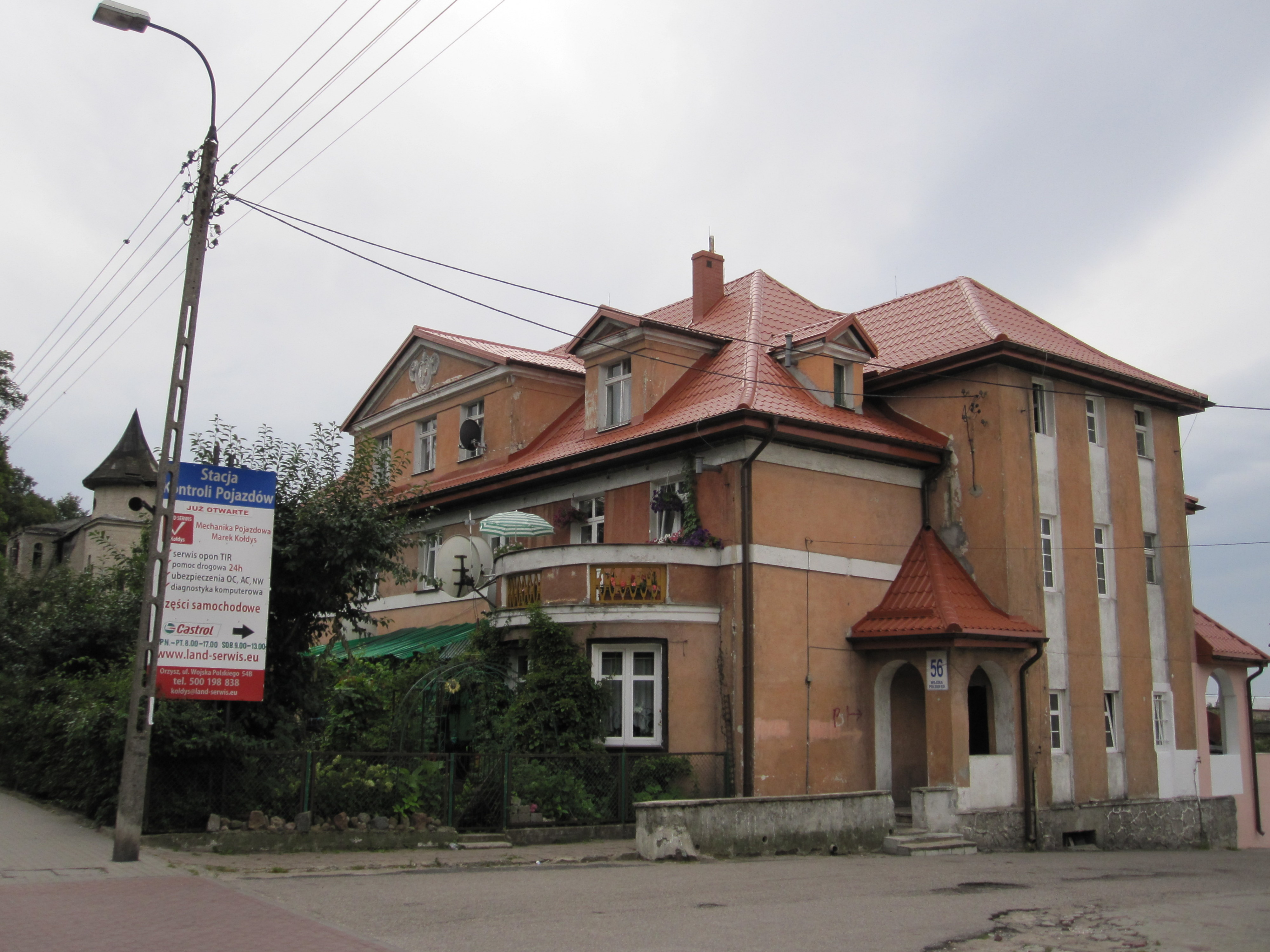 Building on 56 Wojska Polskiego street in Orzysz